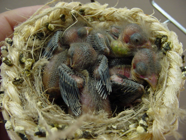 Black headed red siskin juvenile chicks in nest